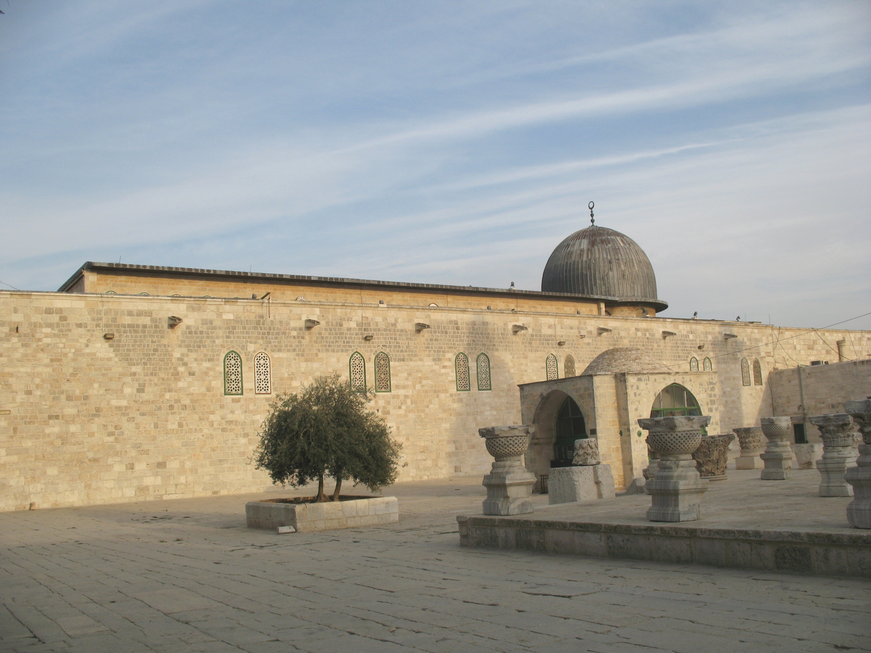 Old city and AlAqsa Mosque in Jerusalem - Occupied Palestine